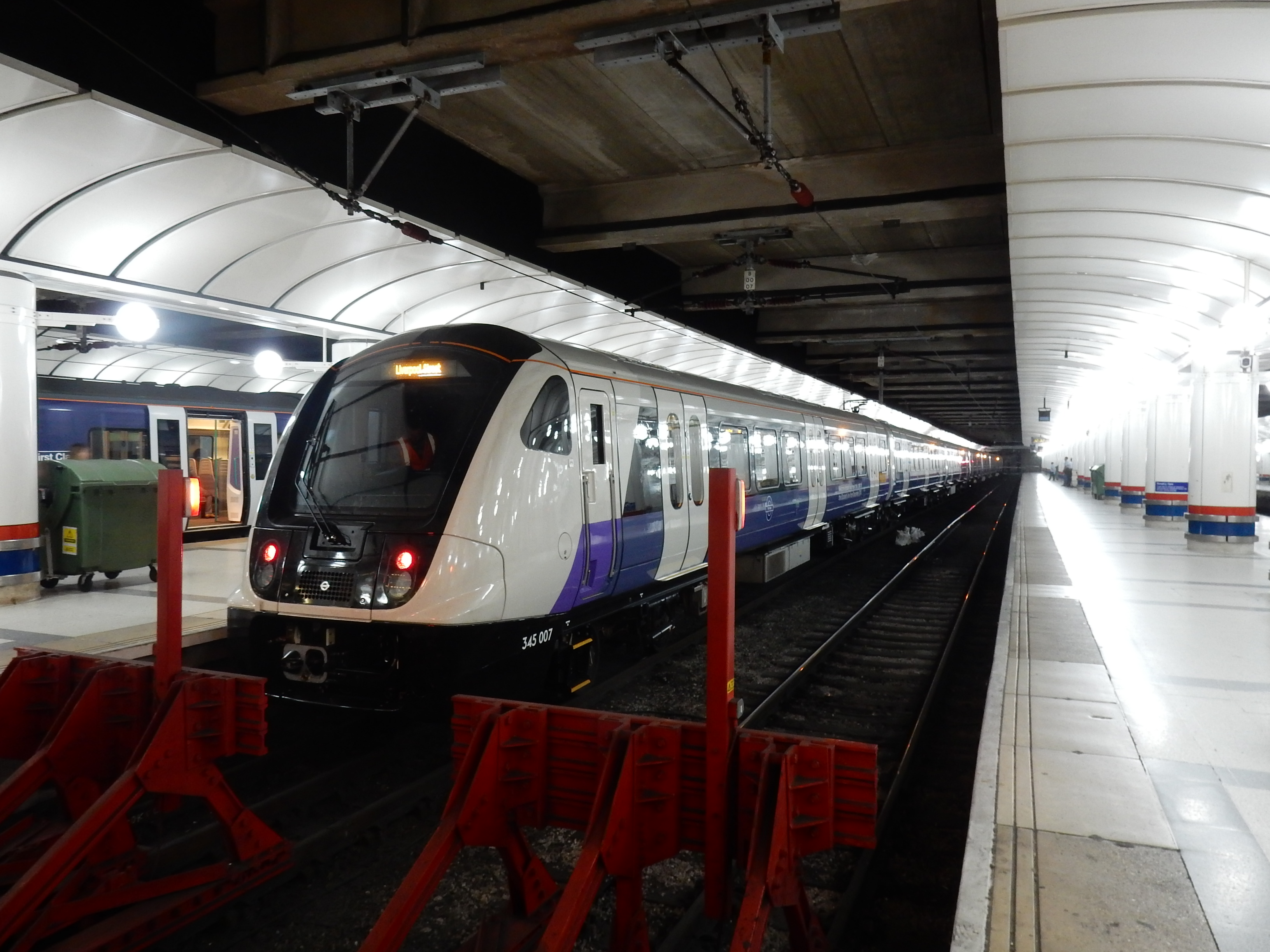 Class 345 unit 345007 at London Liverpool Street station having just arrived with the (at time of writing) daily westbound Class 345 service from Shenfield, on 7th July 2017. It will return to Gidea Park as an empty carriage stock service.